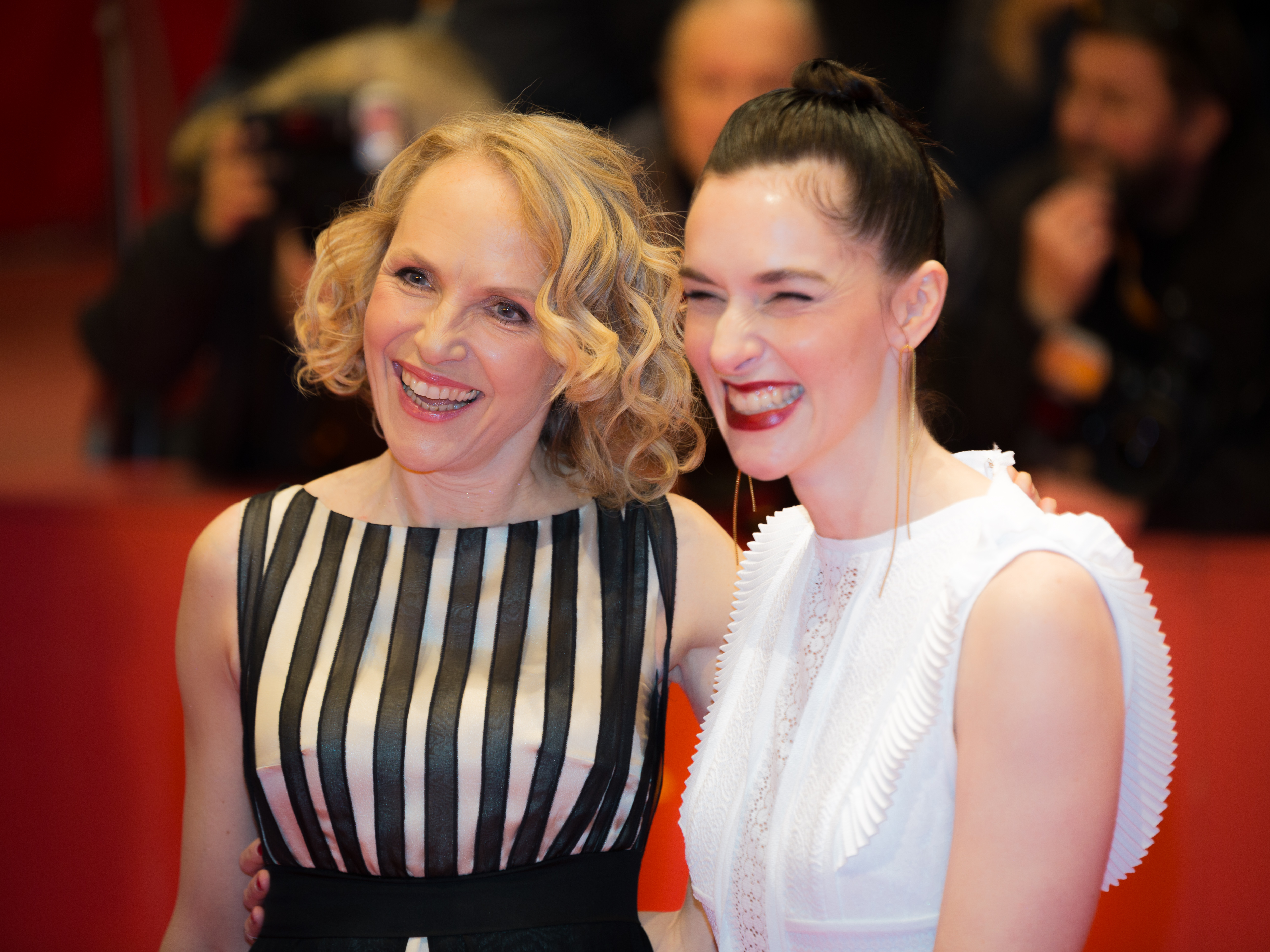 Juliane Köhler and Kim Riedle on the red carpet of the Berlinale 2017 opening film